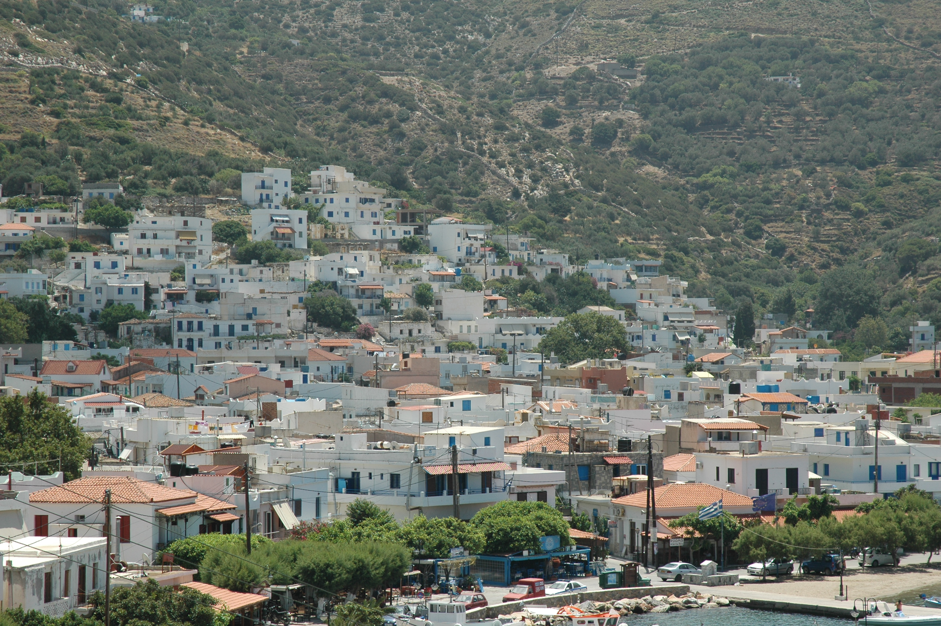 Town of Fourni.